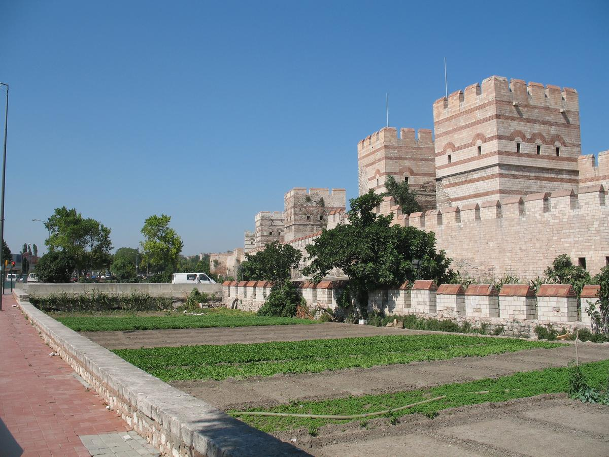 The Theodosian Walls in Constantinople. Second military gate(Deuterou or Belgrade gate).